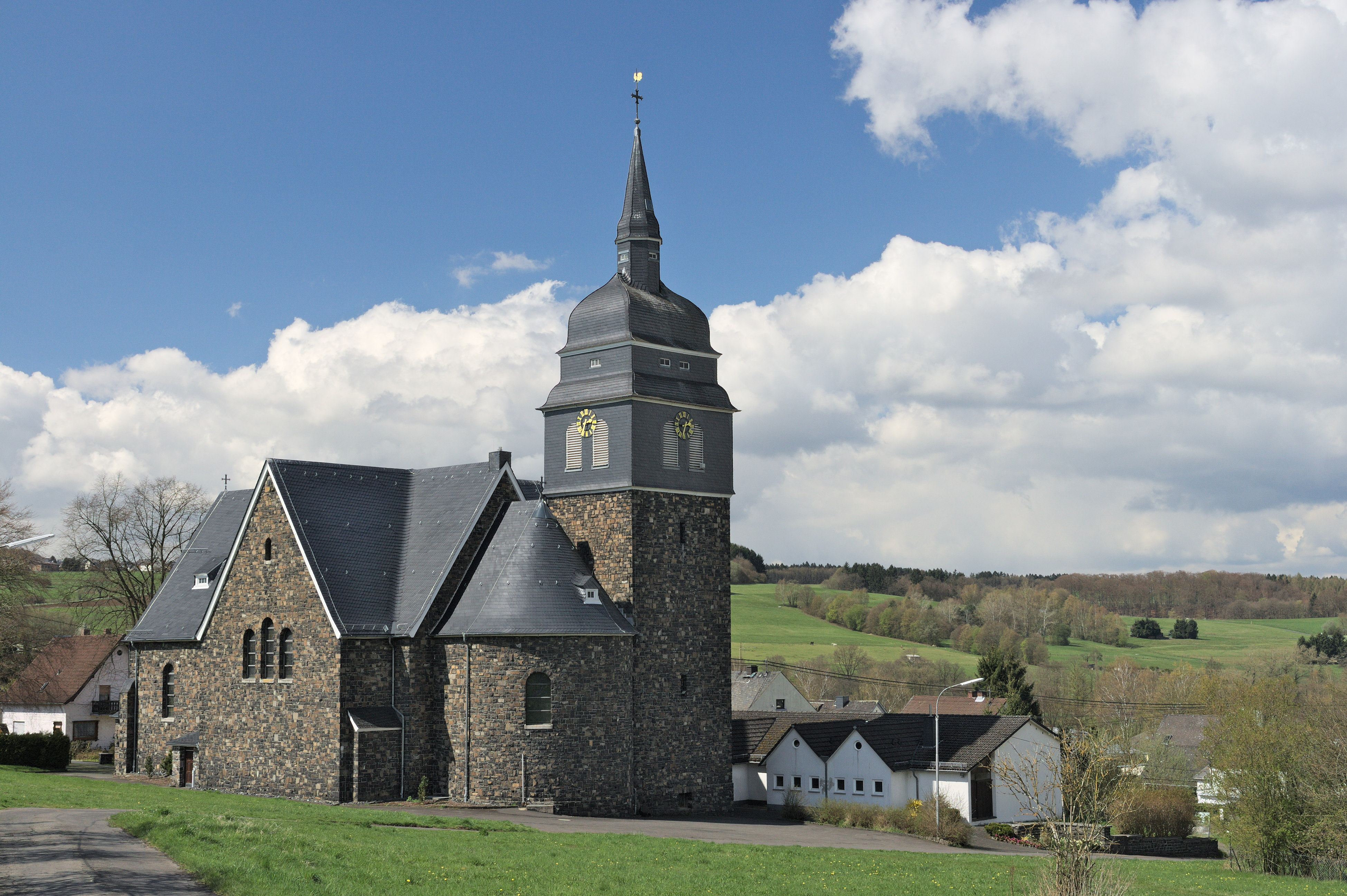 Catholic church Mariä Himmelfahrt, erected in 1921. Cultural heritage monument. Location: Kirchweg 7, Nistertal-Büdingen, Westerwald, Germany